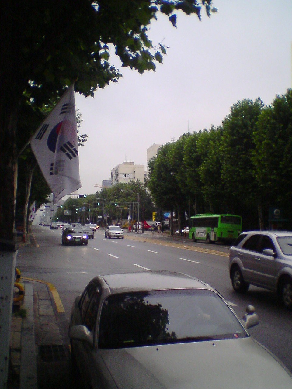 It's a place in Seoul called Cheongdam-dong, on Constitution Day. You can see the flags along the street.